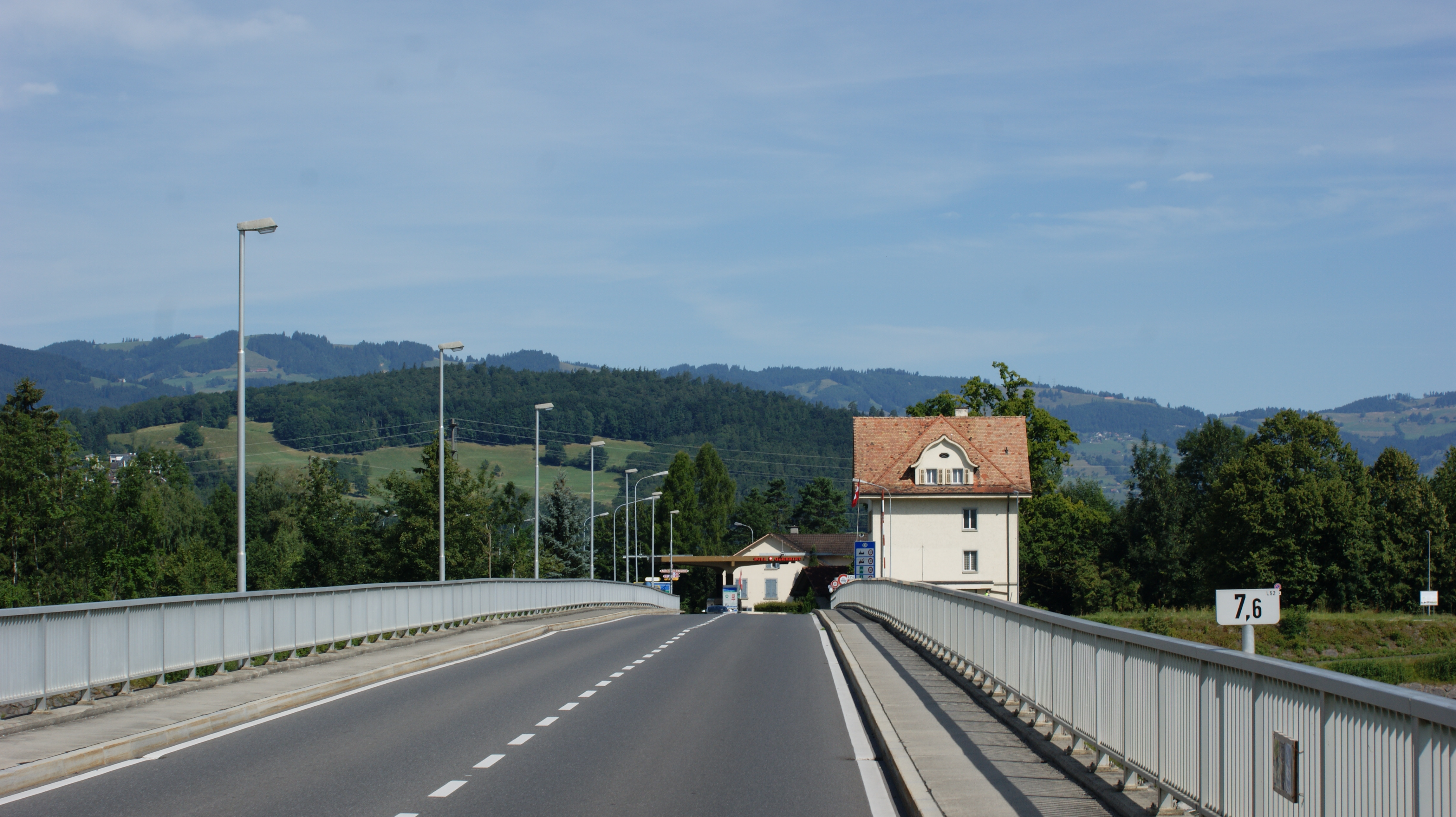 Border crossing Meinigen in Feldkirch (Vorarlberg, Austria) - Oberriet (Switzerland). View from Meiningen over the boundary bridge about the Alpine Rhine to Oberriet.